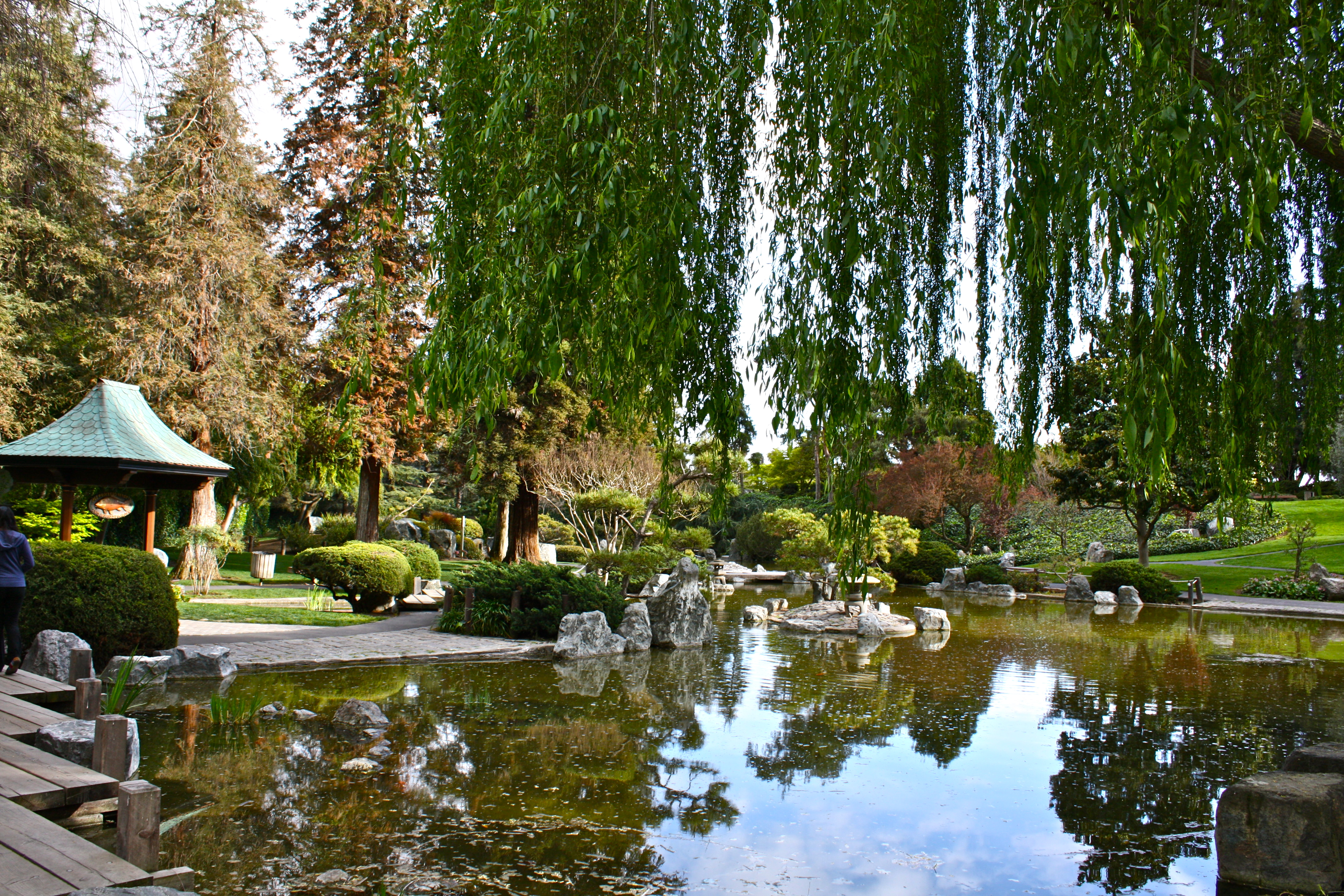 Lower pond at Japanese Friendship Garden (Kelley Park) in San Jose, California